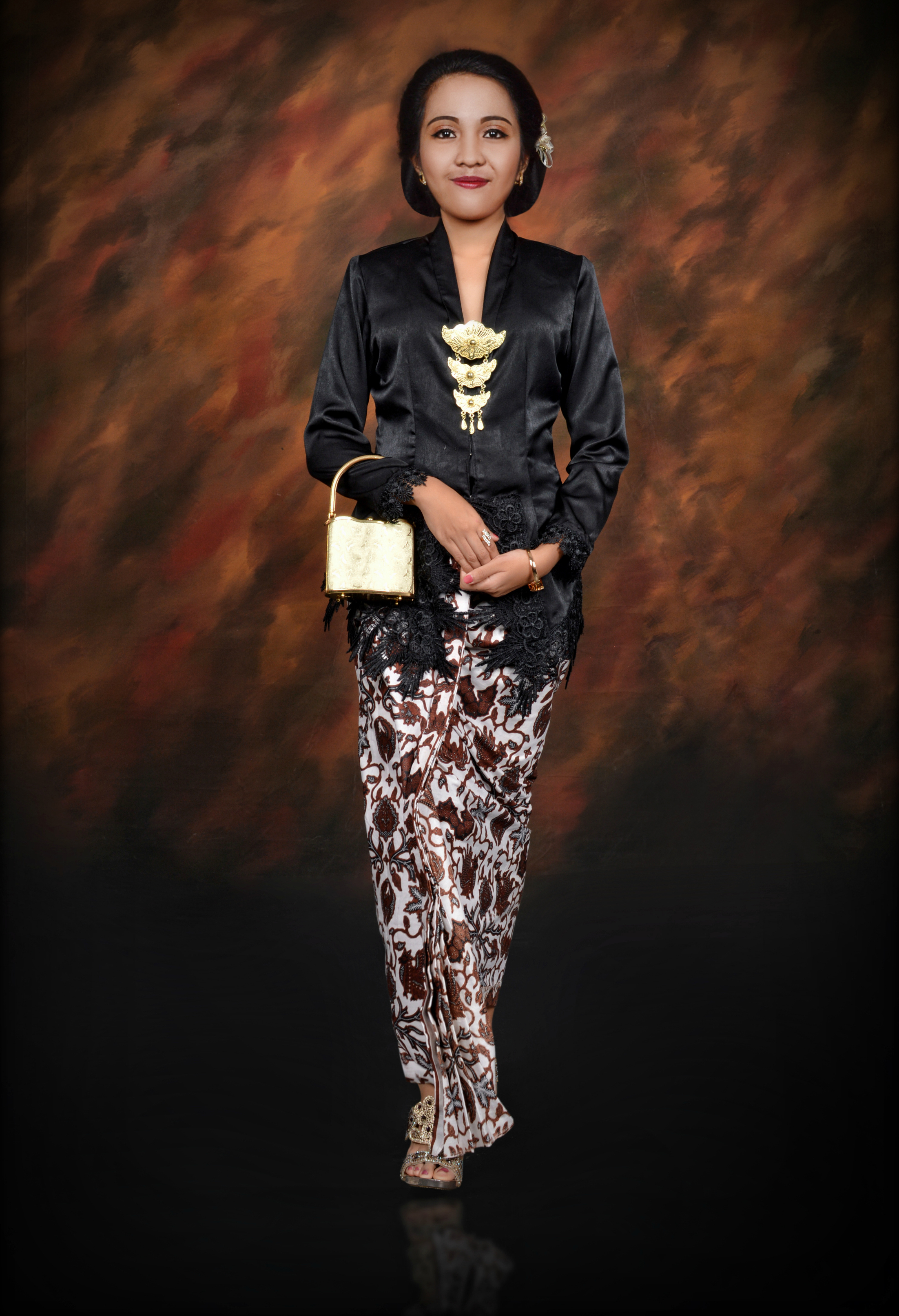 Nilam Zubir in Kebaya (Indonesian Traditional Clothes)